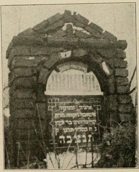 Jewish cemetery in Kobryn